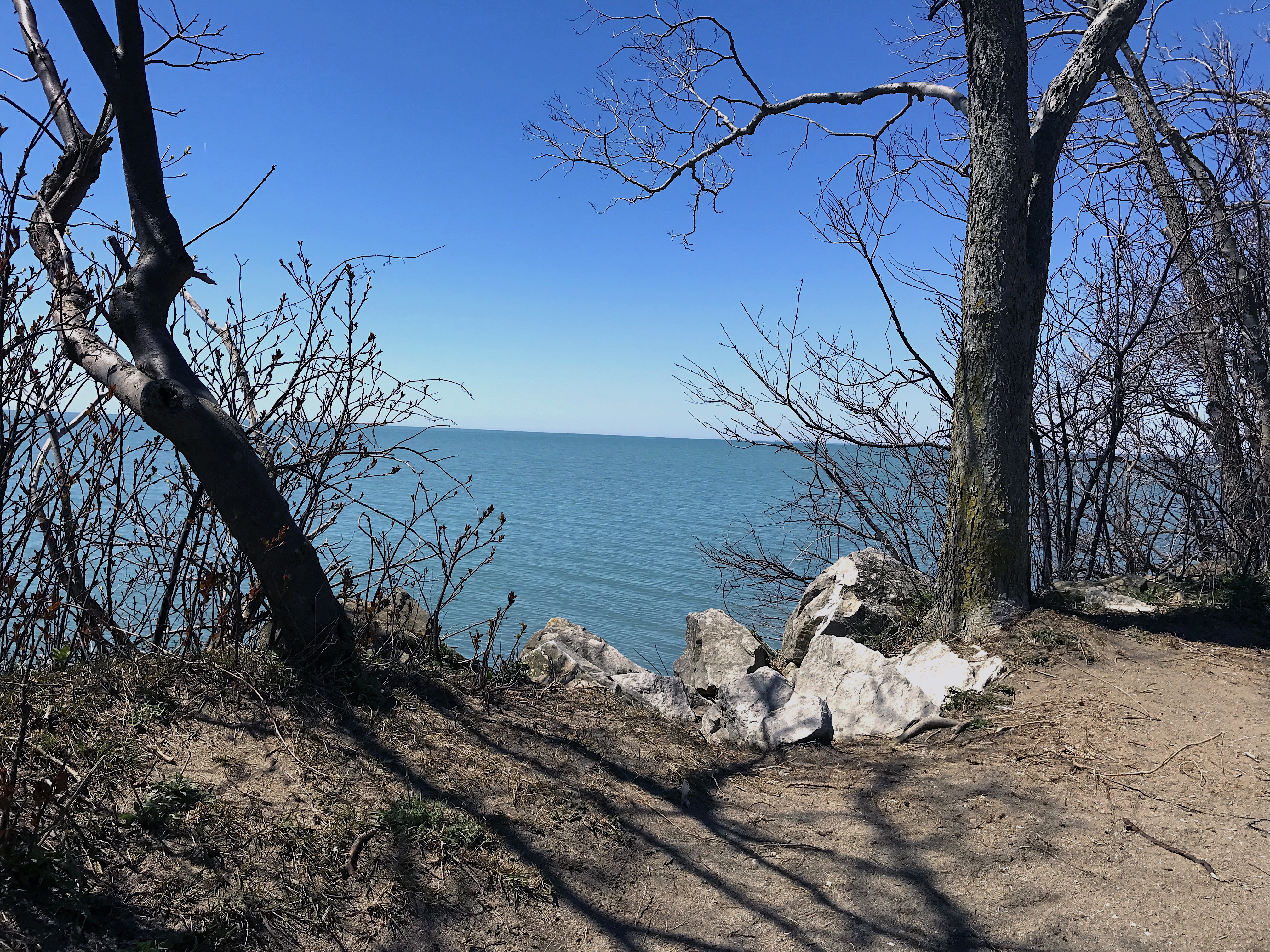 Picture of Point Peele